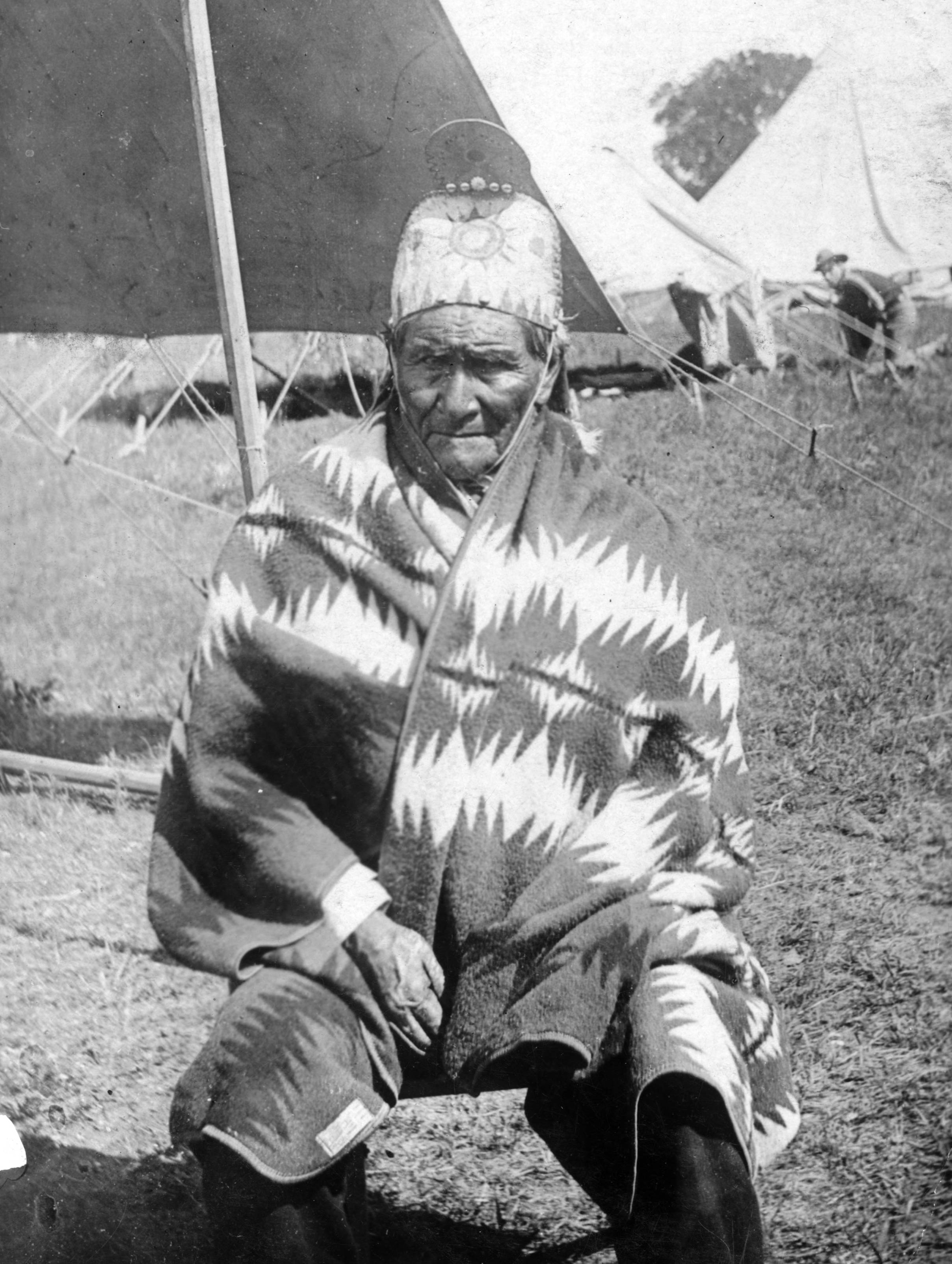 Geronimo, a Native American (Chiricahua Apache) man, a U. S. prisoner, poses outdoors near a group of tents. He wears a woven blanket and beaded cap. He has defended his people from the harm of the U.S land takeover.